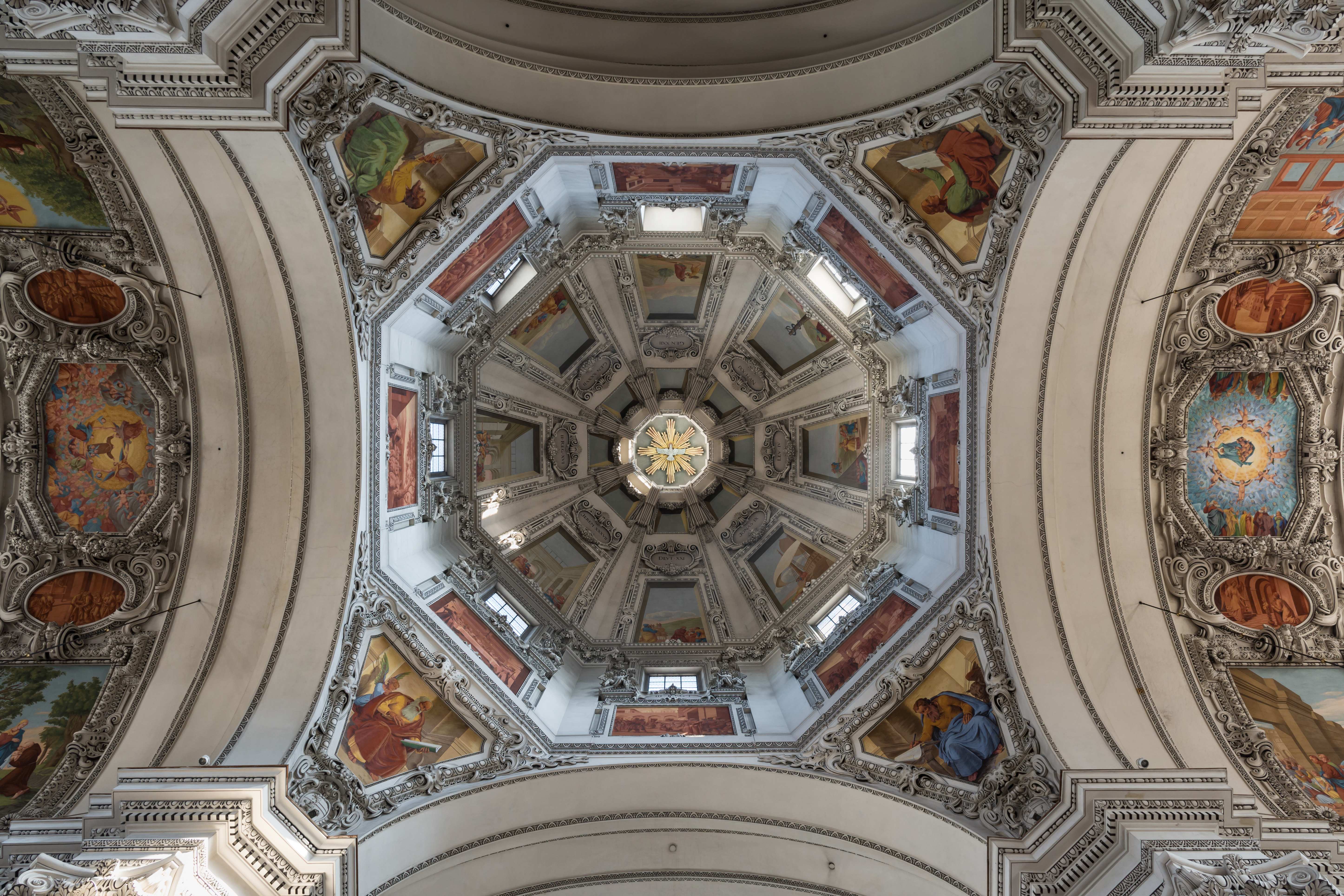 Dome of Salzburg Cathedral, federal state of Salzburg, Austria